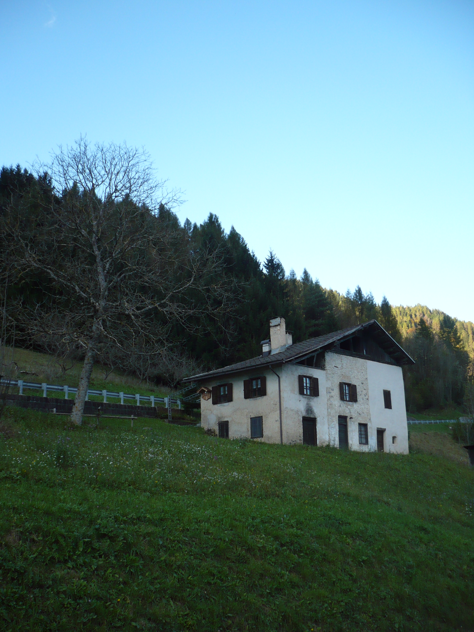 A mountain house in the comune of Imèr, province of Trento, Italy